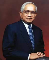 P.P. Karan lead the creation of the graduate program in the UK Department of Geography in 1968.